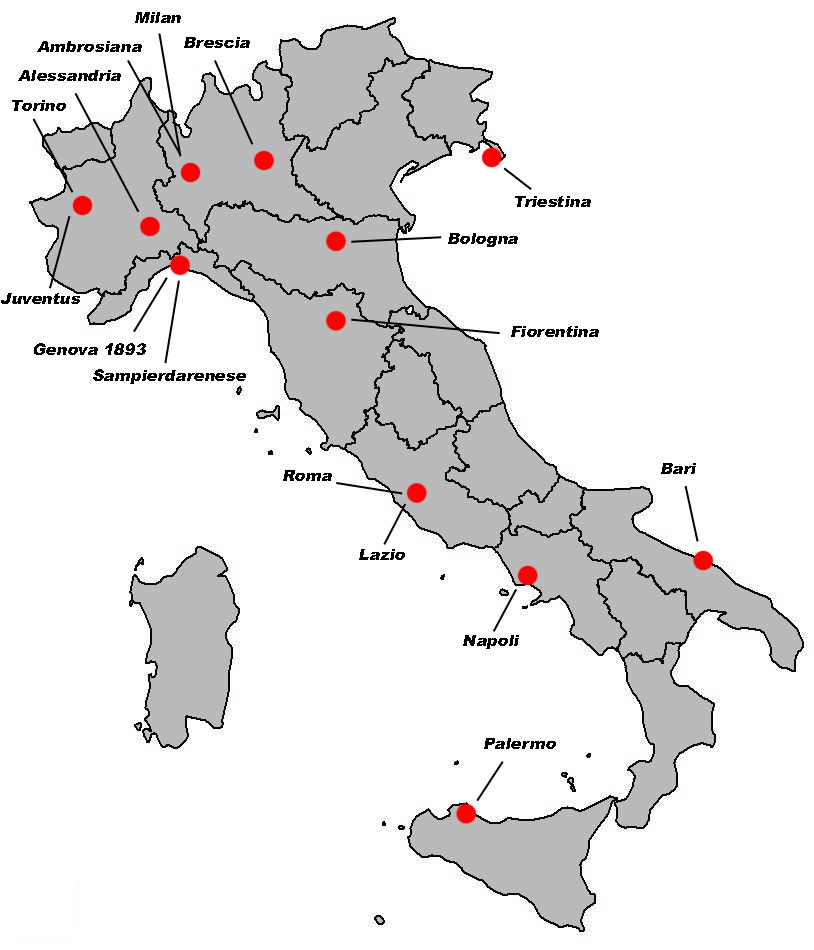 Serie A 1935-36 team locations